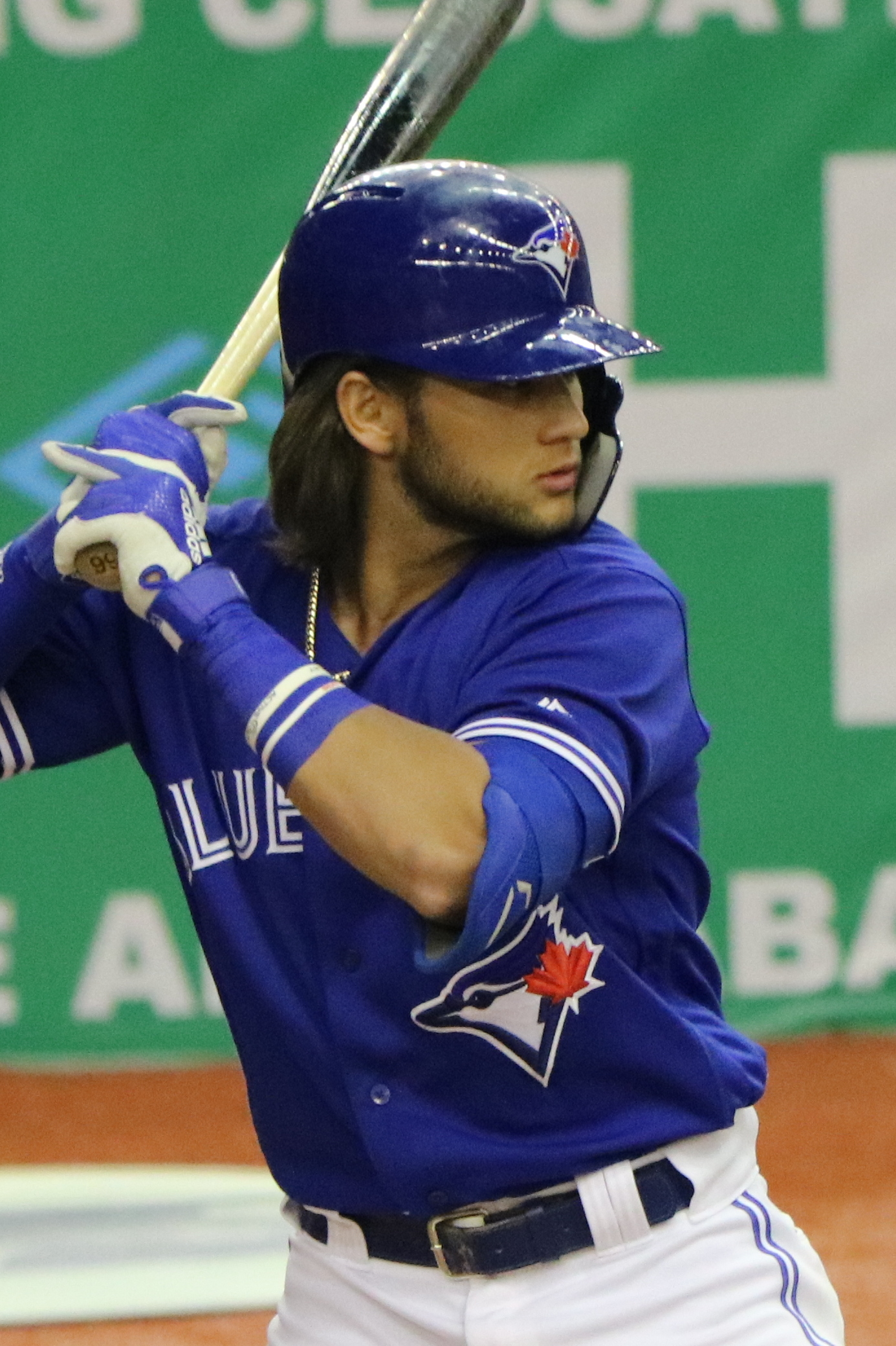 Bo Bichette at bat, March 25, 2019